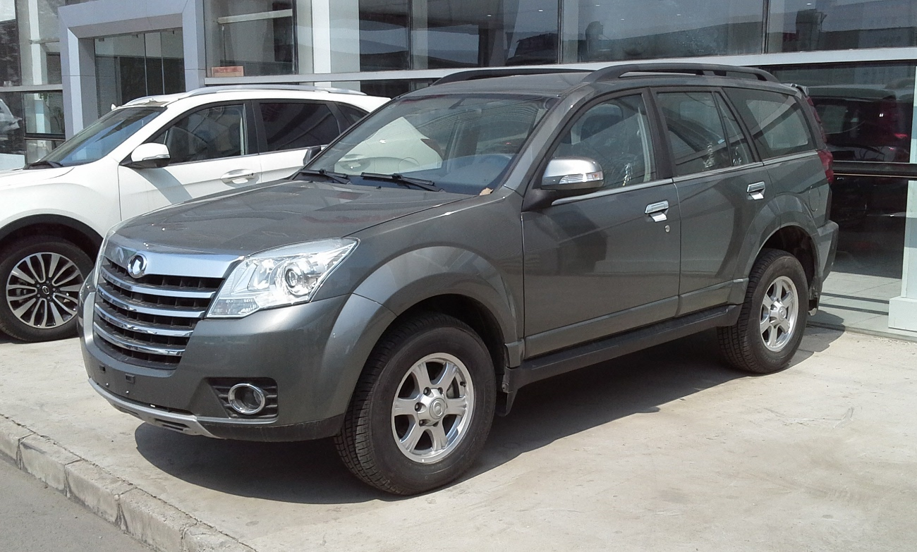 Great Wall Haval H5 Extreme Edition photographed in Beijing, China.